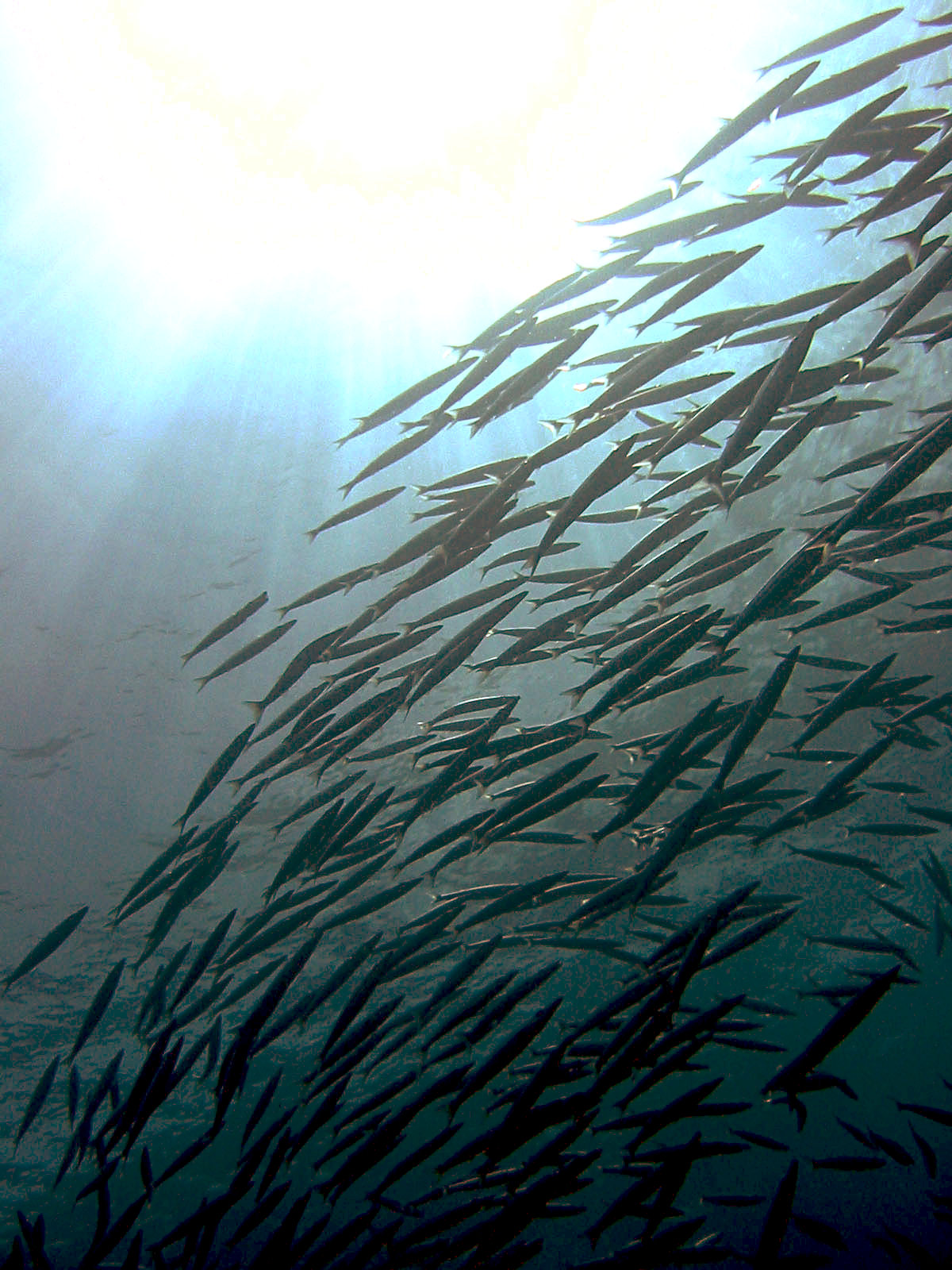 young yellowtail barracuda shoaling off dahab, Egypt